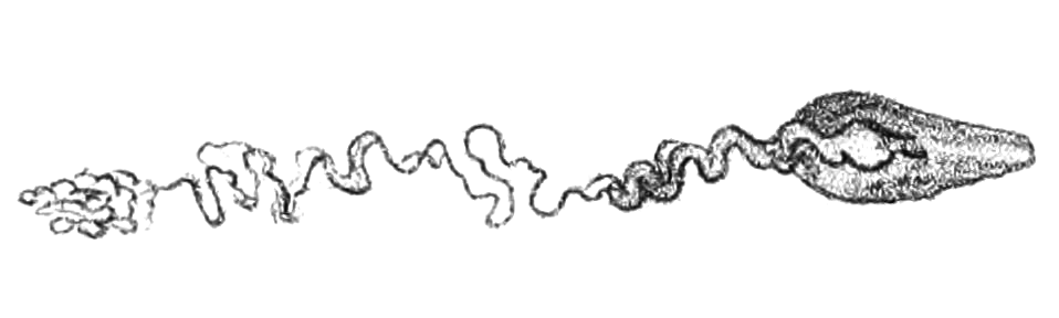 Drawing of the reproductive system of a male of Theodoxus fluviatilis shows testis, prostate, vas deferens and penis.